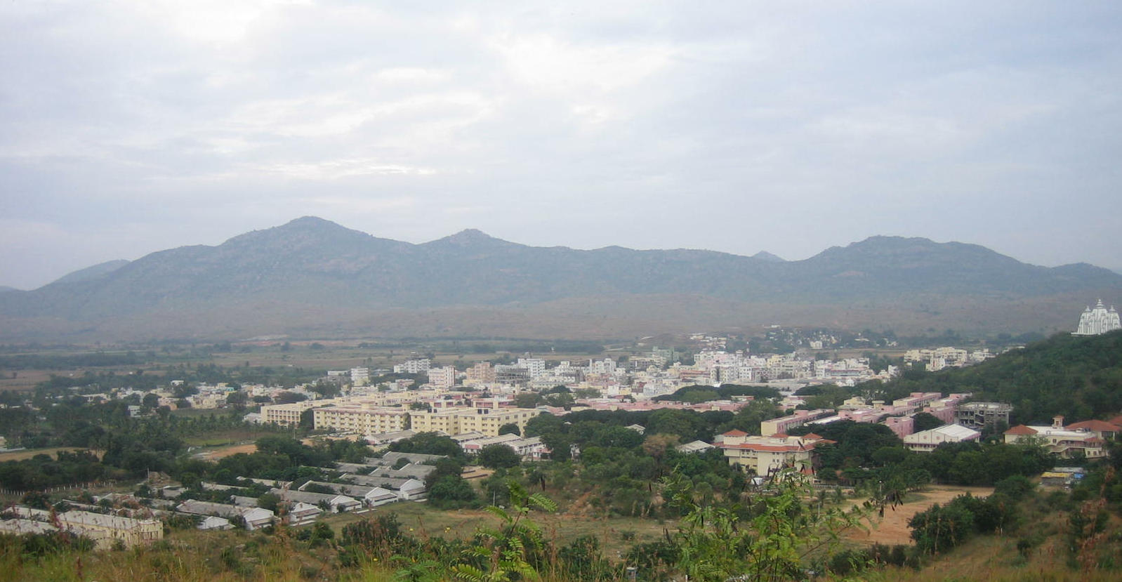 photo of putatparthi and prashanti nilayam, abode of Sathya Sai Baba